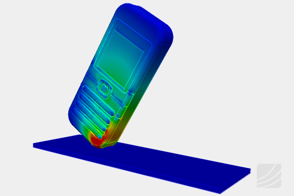 Post-processing image of an FEA simulation where a mobile phone's casing was tested when being dropped from 2 meters height. Performed with the cloud-based CAE software SimScale.